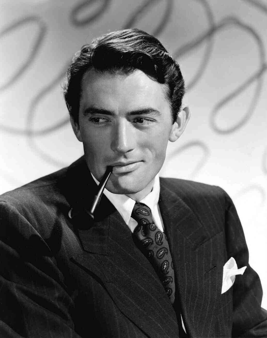 Publicity photo of Gregory Peck (1945)